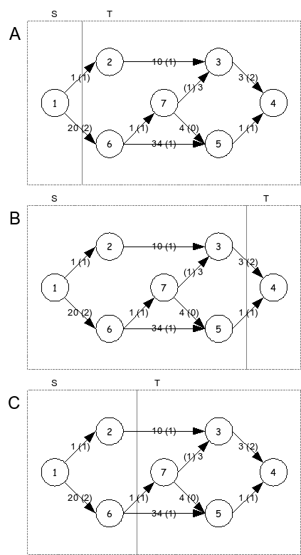 Graph Network flow; cut 1